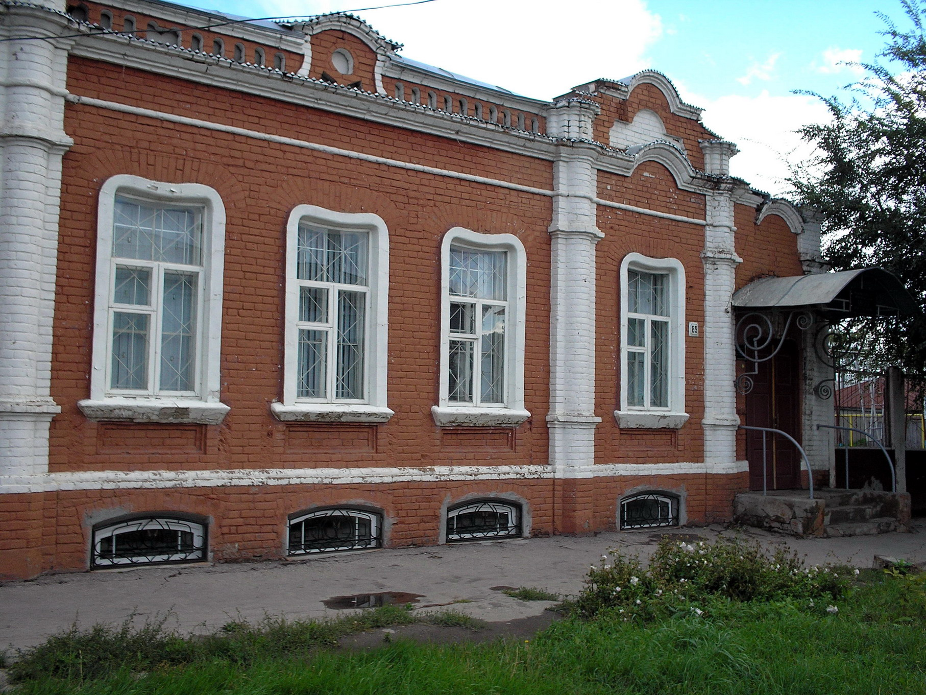 Khvalynsk. Picture gallery